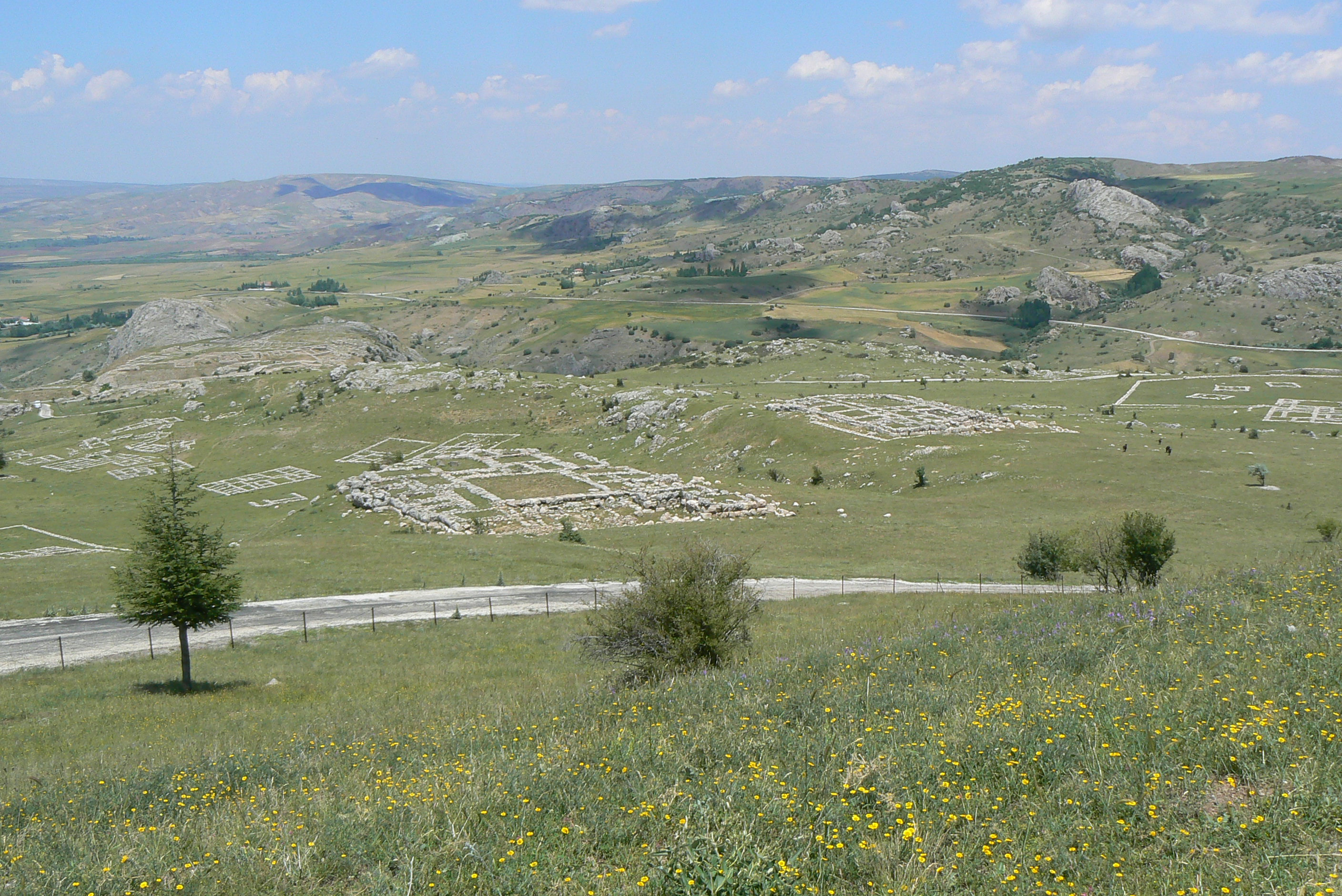 The Upper city, the Temple district, Hattusa, Turkey